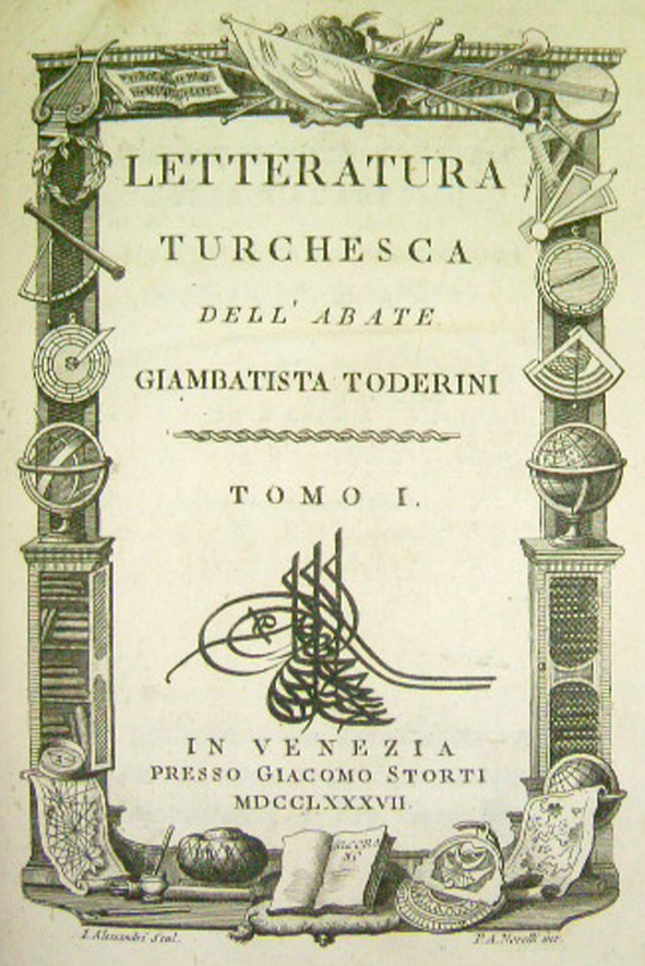 Title page (not frontispiece!) of Giambattista Toderini’s book Della Letteratura Turchesca. The text is available at qui.